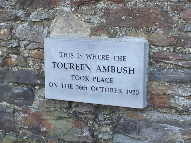 Plaque on farm wall. Shows incorrect date.